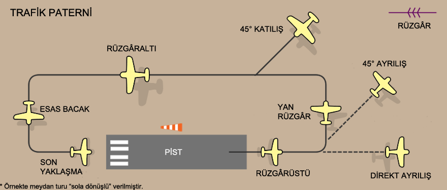 Airfield traffic pattern and circuit